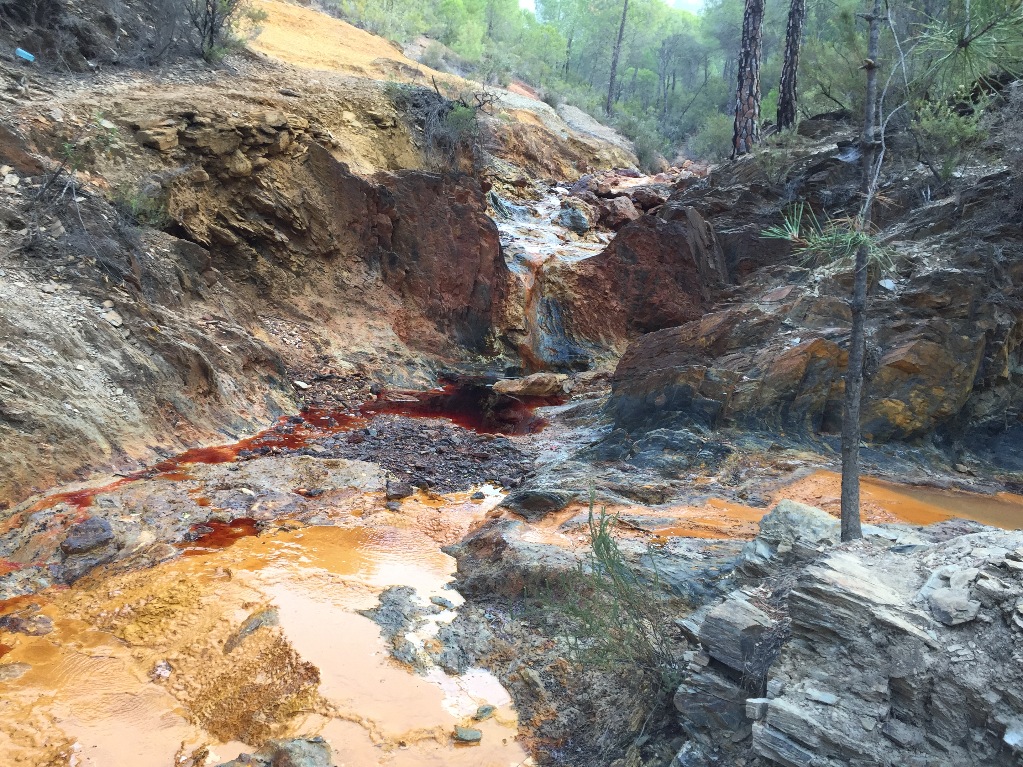 Rio Tinto river birth near Nerva, Spain